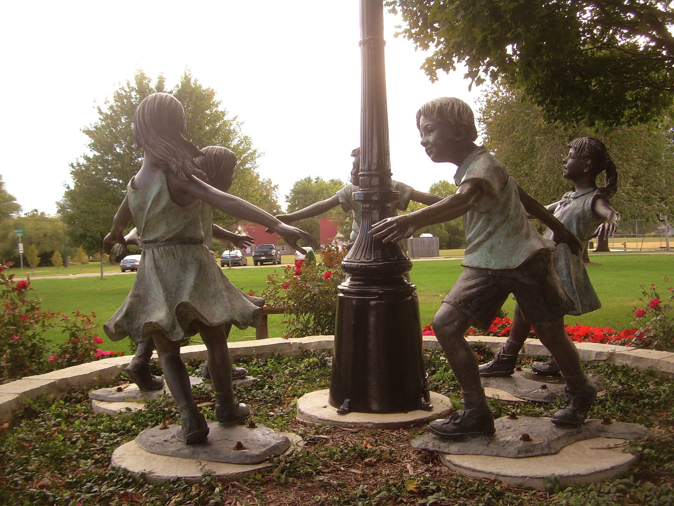 Monument near the Children's Home in Normal, Illimois.